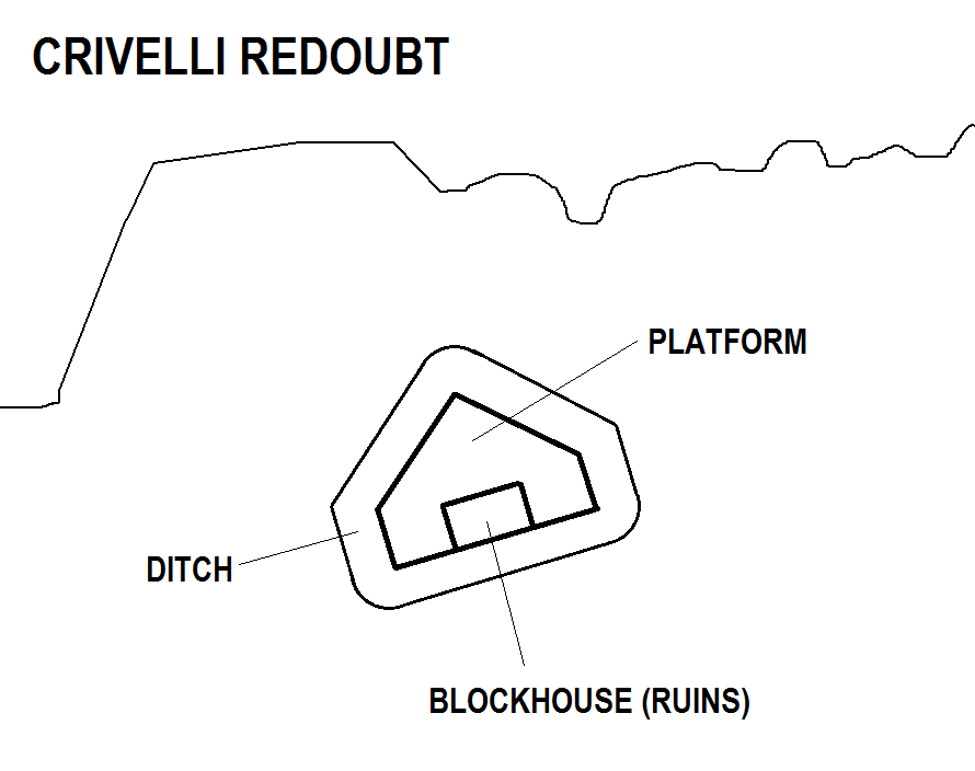 Map of the ruins of Crivelli Redoubt in Mellieħa, Malta.